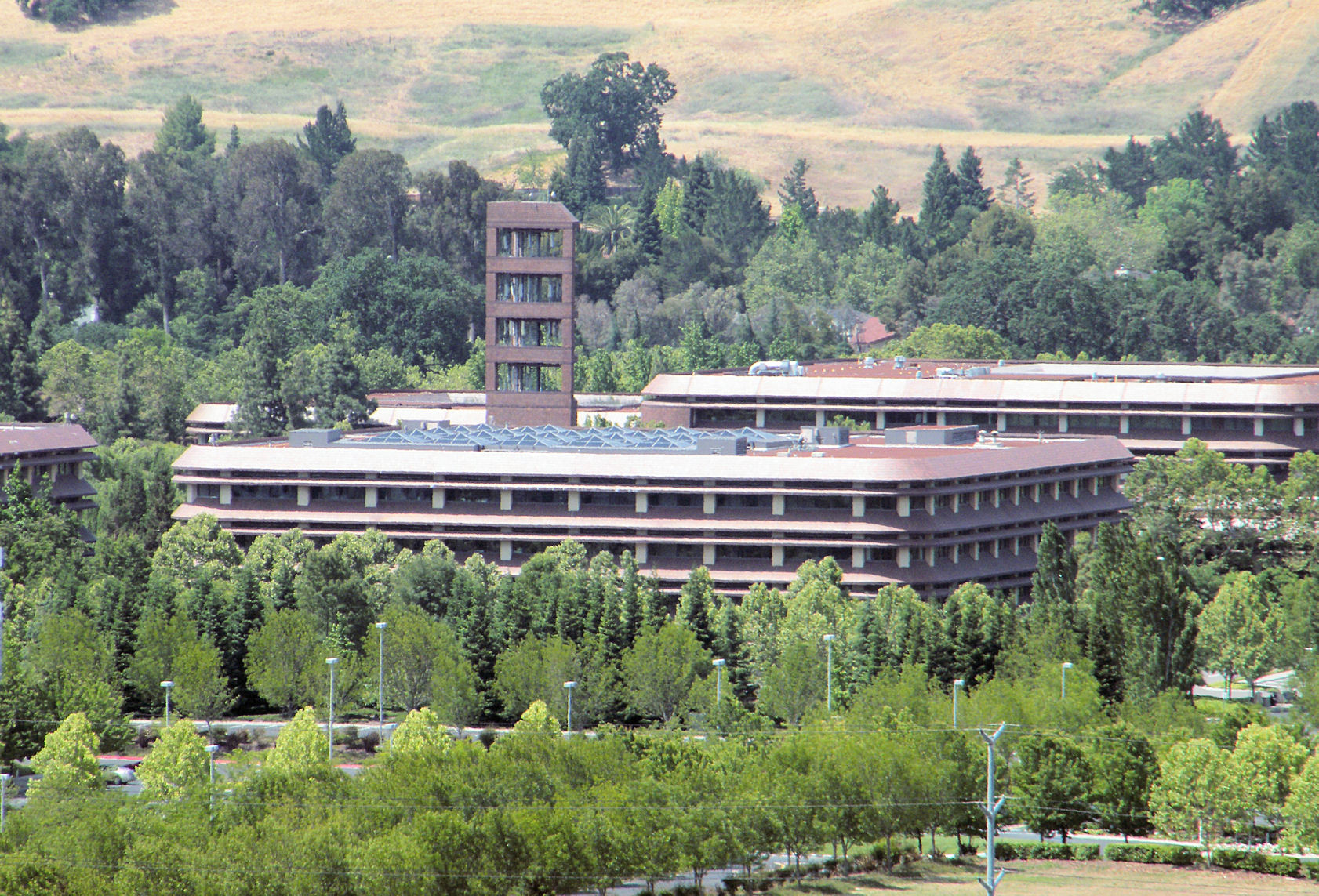 Chevron Corporation headquarters in San Ramon, California. This view shows just one part of a huge, sprawling complex.